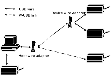 Comparison between wired USB and Wireless USB systems. The different types of wire adapters are shown, as well as how they can be used together with traditional USB devices.